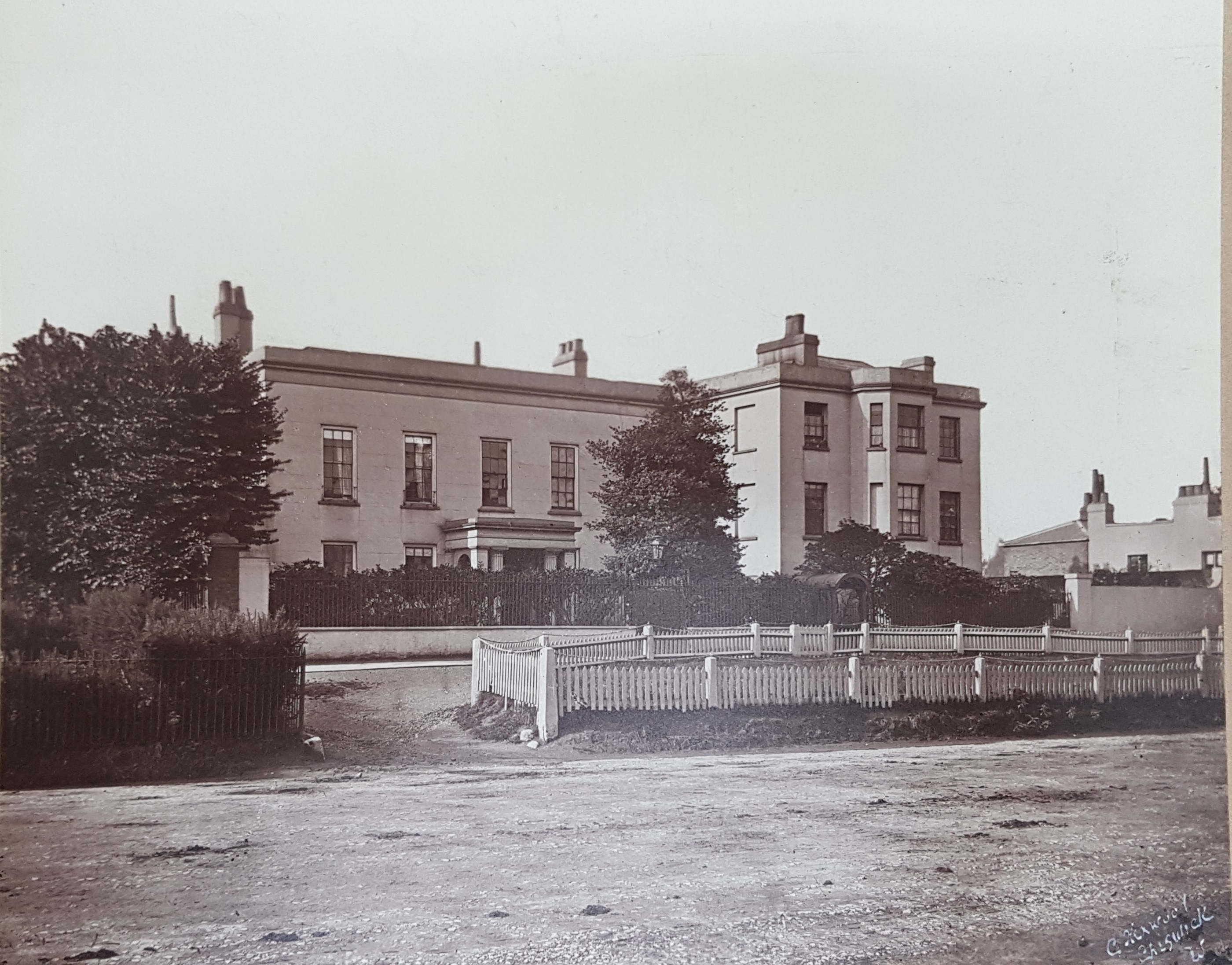 Sulhamstead House